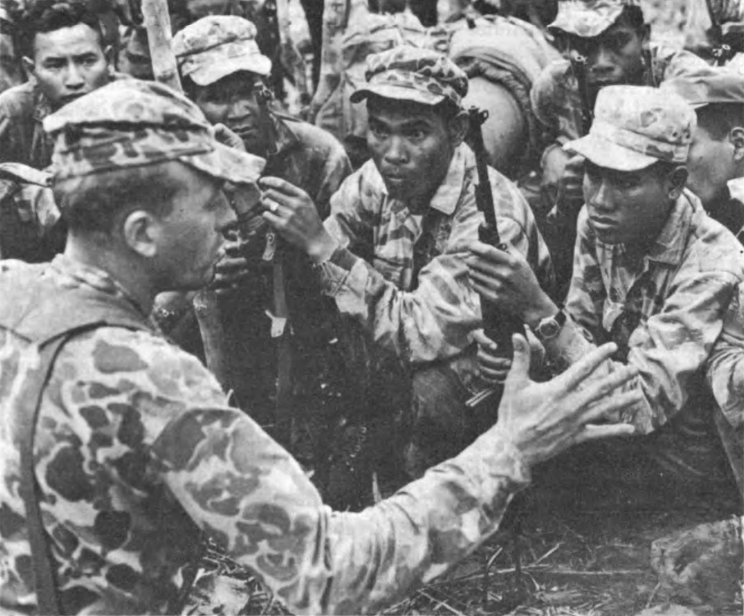 SAF adviser Staff Sergeant Howard Stevens briefing Montagnard strike force before moving out against nearby Viet Cong guerrillas